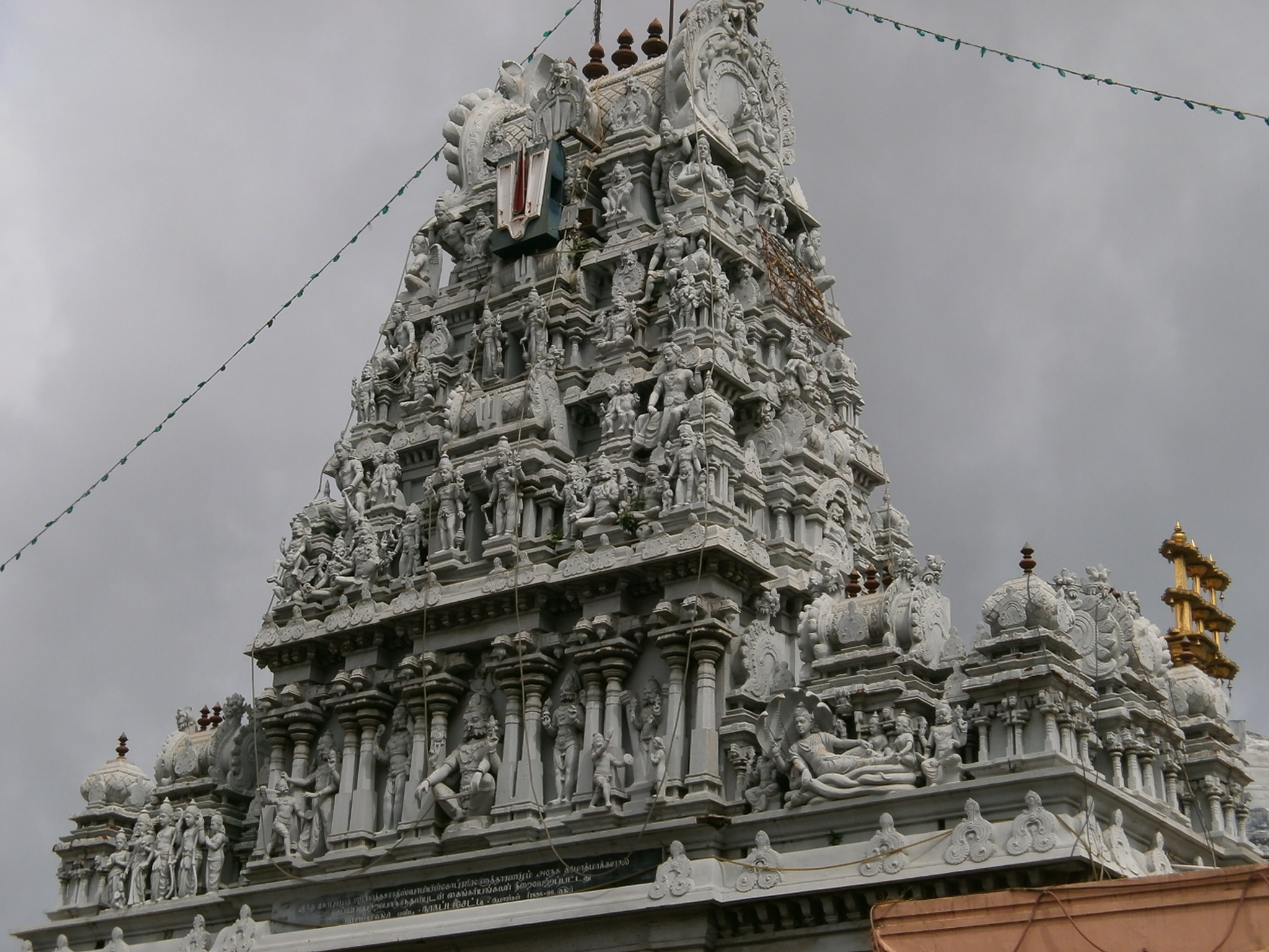 Parthasarathy Temple Triplicane Chennai Photo - 5